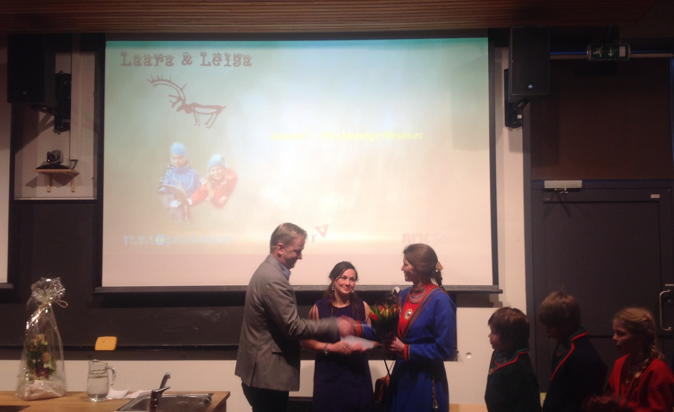 Norwegian children's television series Laara & Leisa at its first presentation in Levanger February 5th 2014. The series is the first children's television ever in Southern Sami language. Left to right: producer Bjørn Tore Hallem; host and sami politician Ellinor Jåma; Anita Dunfjeld Aagård, author and mother of actor Hilma; Piere Åhren (playing Laara); unknown; and Hilda Dunfjell Mølnvik (playing Leisa)